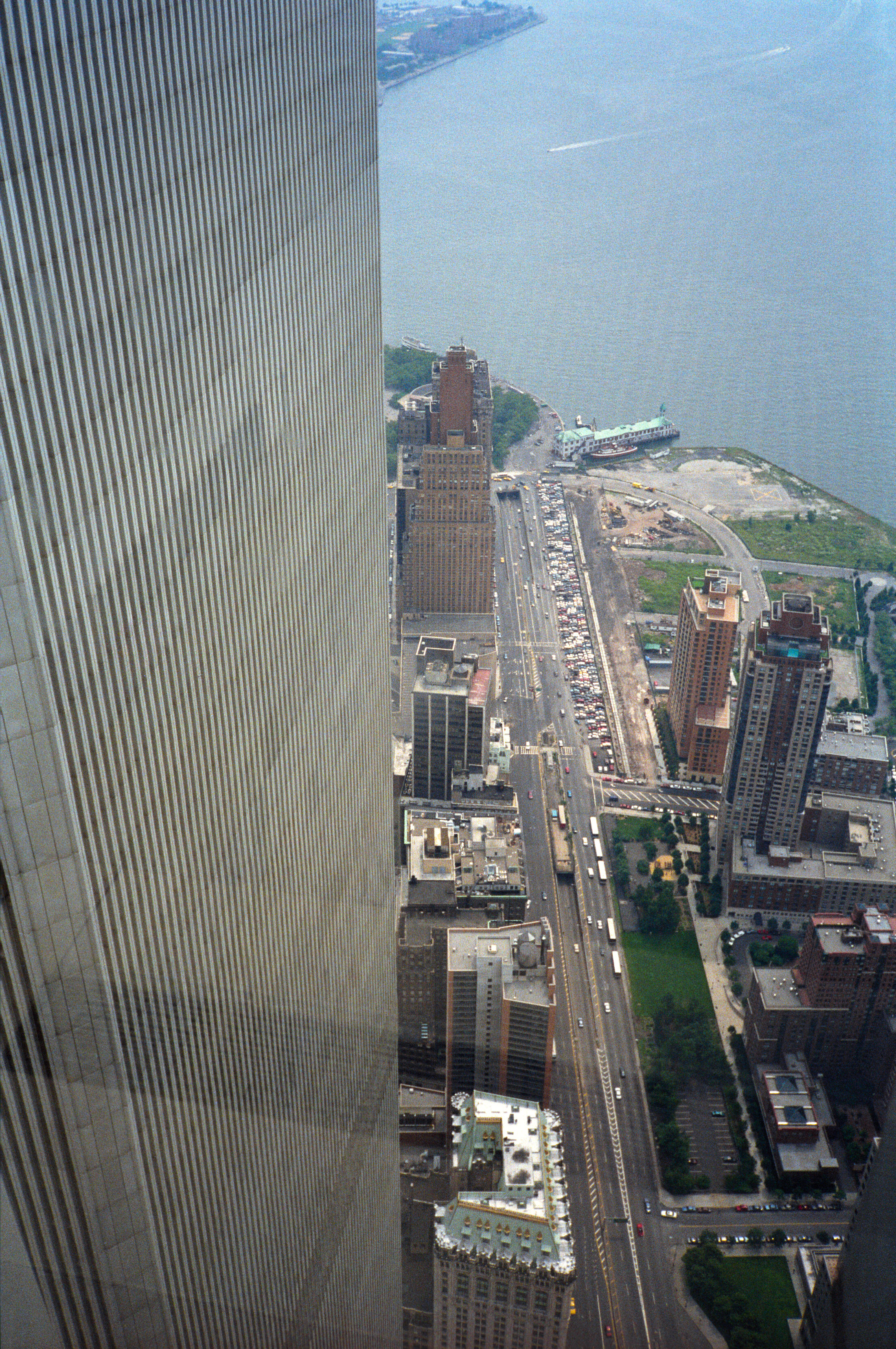 View from the World Trade Center in New York City